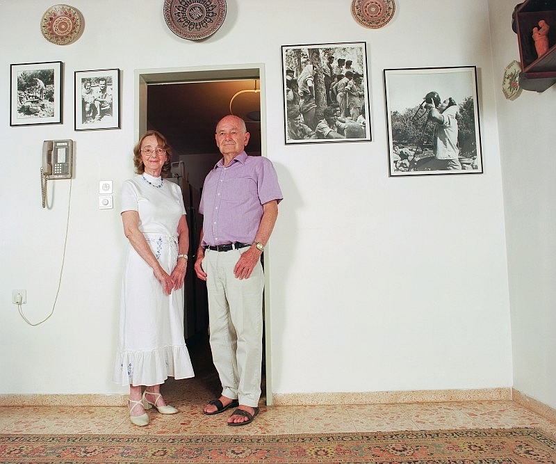 Art of Israel